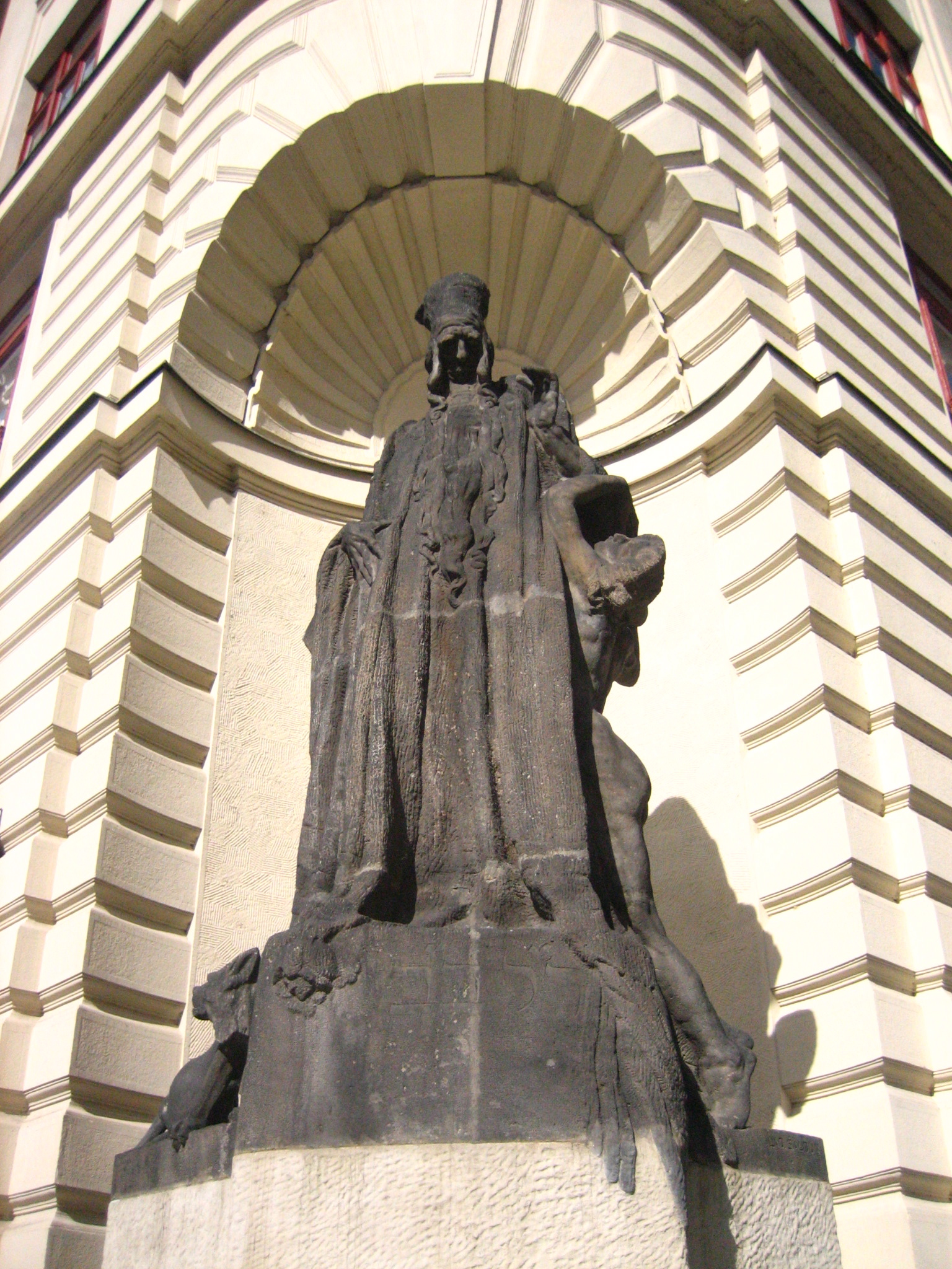 Rabbi Jehuda Löw, the Golem of Prague's creator